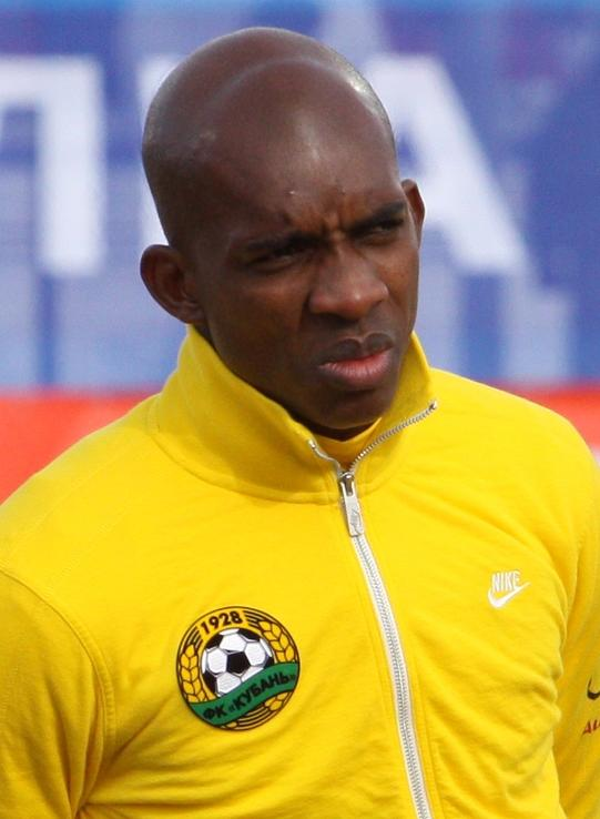 Charles Kaboré with FC Kuban Krasnodar in 2013.